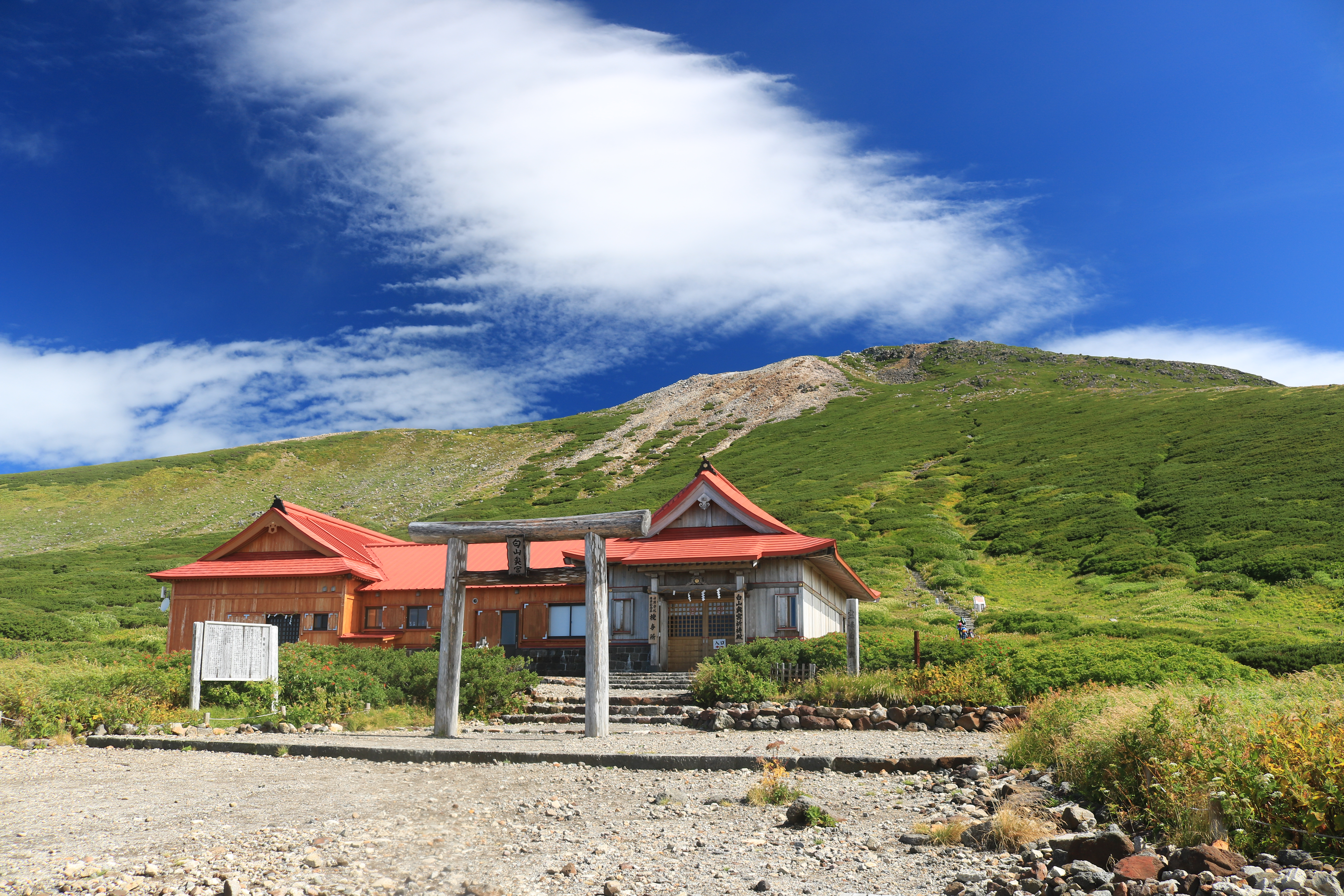 Okumiya of Shirayamahime-jinja and Gozengamione (Mount Haku) in Murodō, Shiramine, Hakusan, Ishikawa Prefecture, Japan.